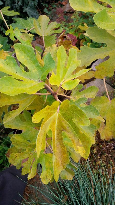 Leaves of the Ficus carica variety Sultane near Fürth, Germany. The variety is also called „Grosse de Juillet“, „Dark Sultane“, „Noir de Juillet“ and „Bellone bifère“.